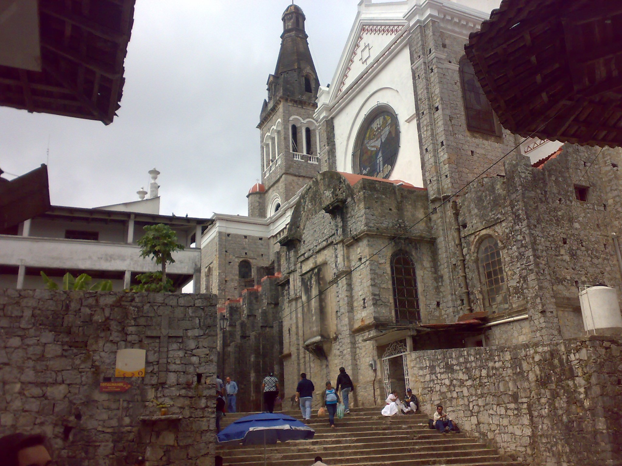 Parte trasera de la Catedral de Cuetzalan